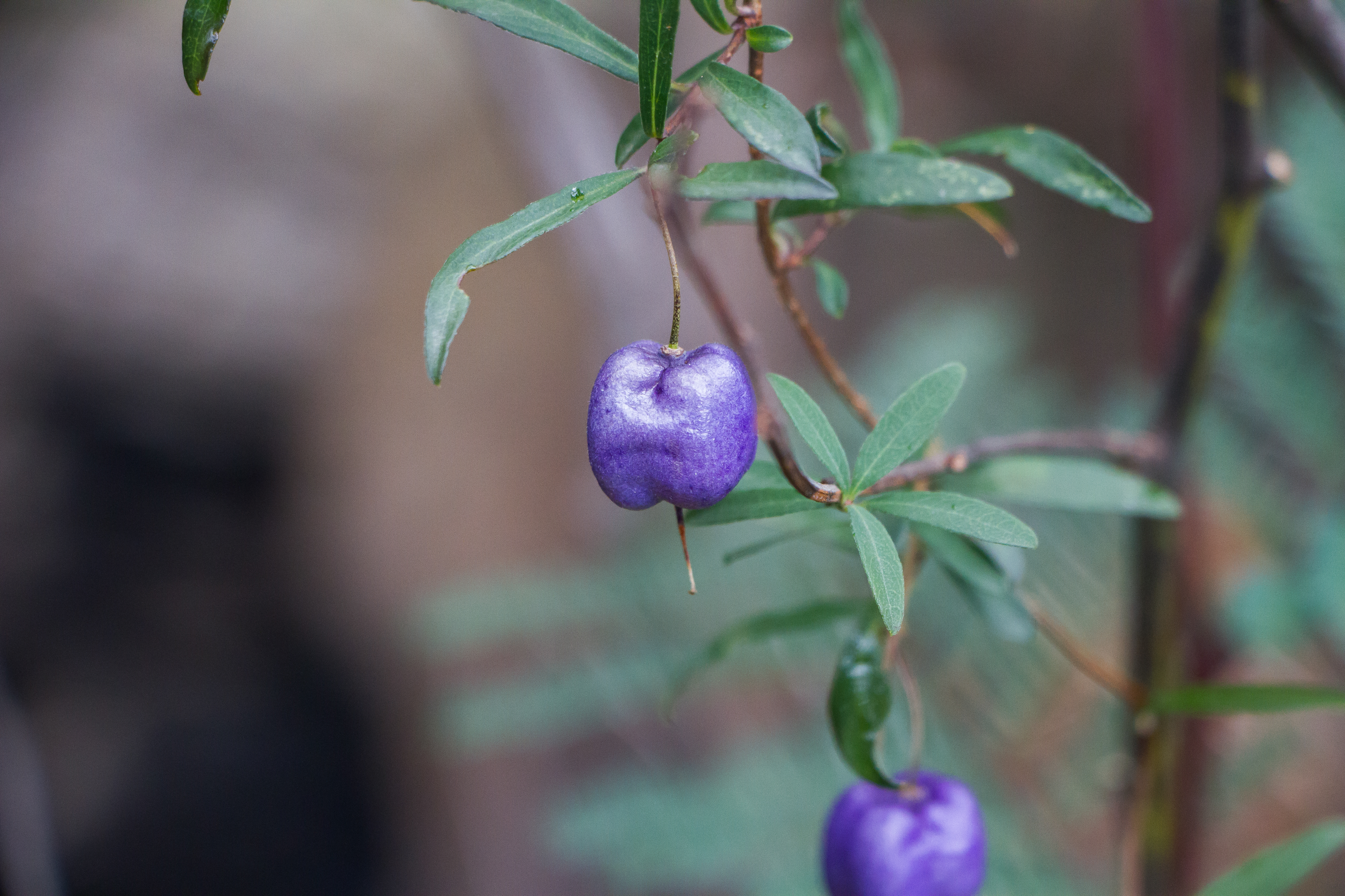 Found in South-West Tasmania